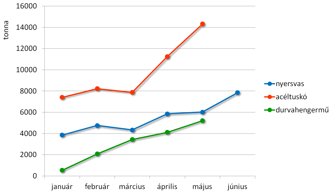 Production data for the Ózd Metallurgical Works, the first months of 1946